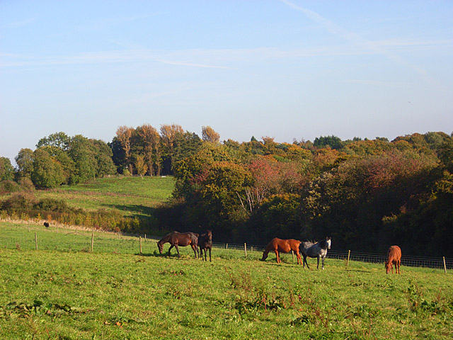 Hillside, Radnage Horses grazing above Bottom Wood as seen from a public footpath.